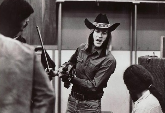 Portrait of Doug Sahm distributed by Atantic records